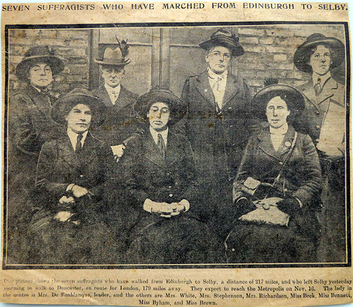 1916 march reported in 1916 newspaper. People are 1 Florence Gertrude de Fonblanque, 2 White 3 Stephenson 4 Richardson 5 Byham 6 Sarah Bennett 7 Nannie Brown (Agnes)